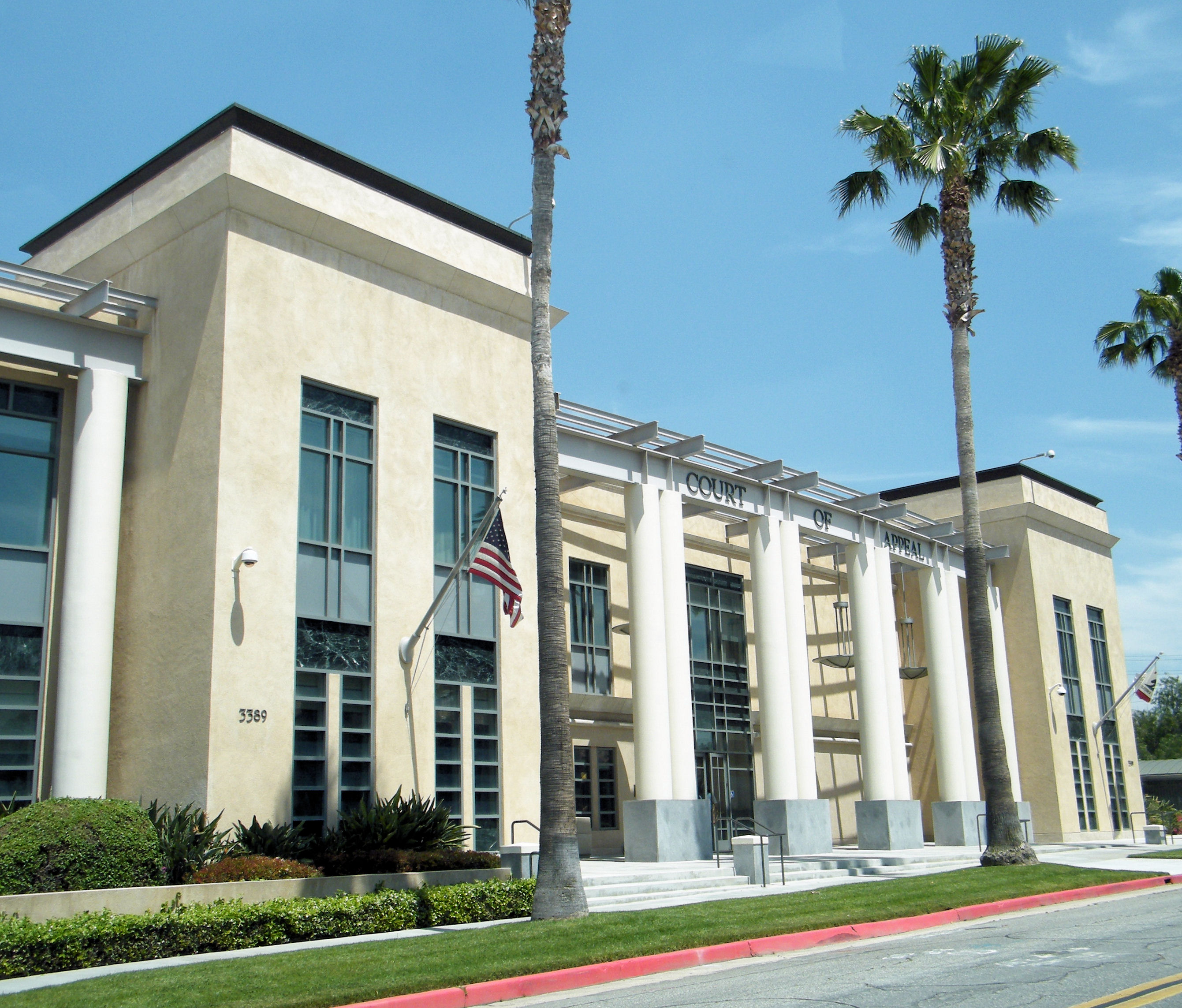 The California Court of Appeal for the Fourth District, Division Two, in Riverside.